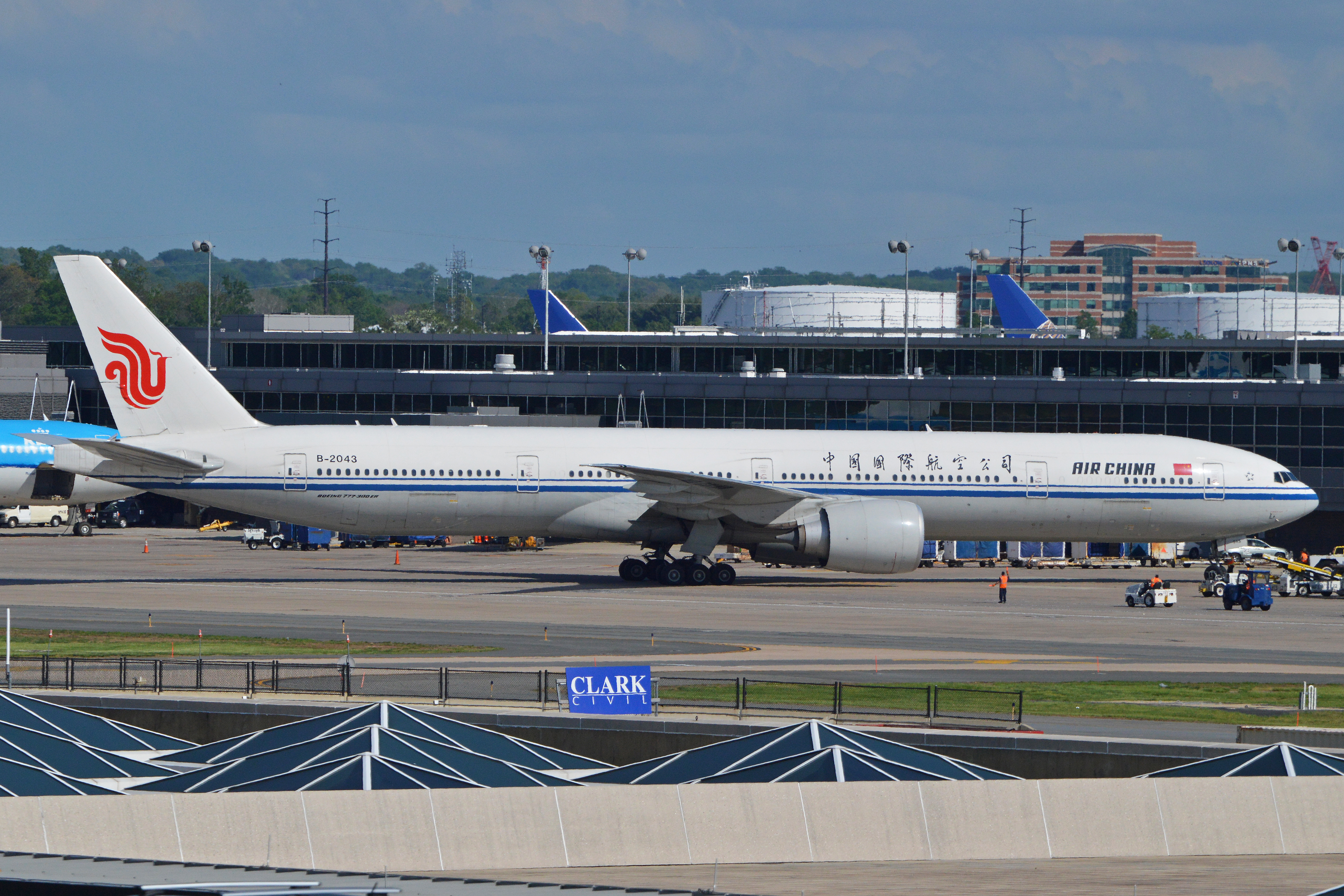 c/n 41441, l/n 1132. Built 2013. Washington Dulles Airport, Virginia, USA. 09-6-2015